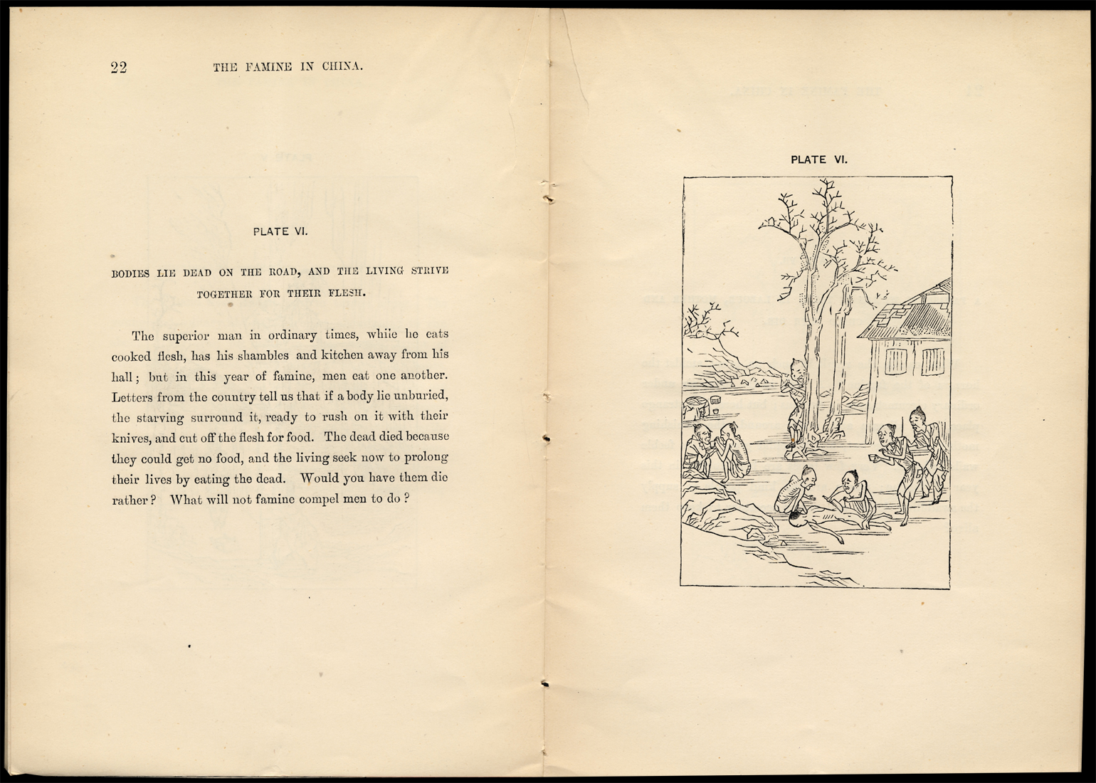 Cannibalism in consequence of the China famine 1876- 1879